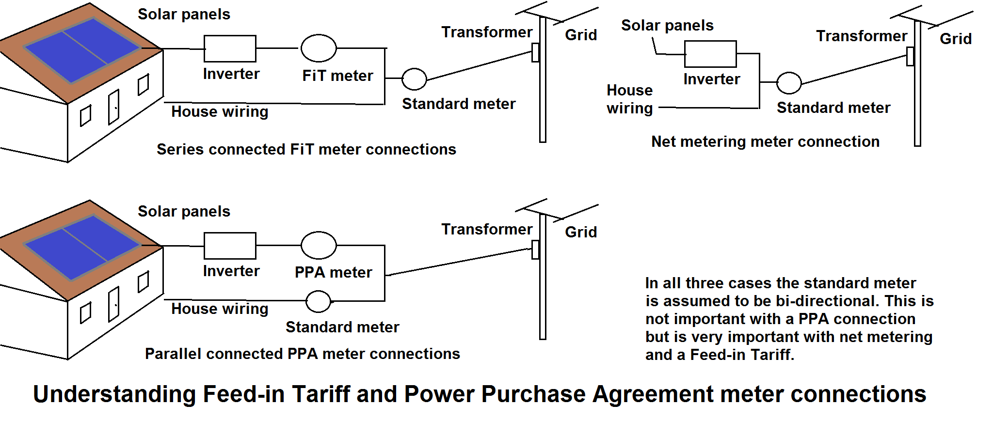 Understanding the difference between Feed-in Tariff, Power Purchase Agreement, and net metering by looking at the meter connections used by each method. Note: Different regions use different meter connections. The UK uses series wiring. Ontario (Canada) allows both series and parallel.